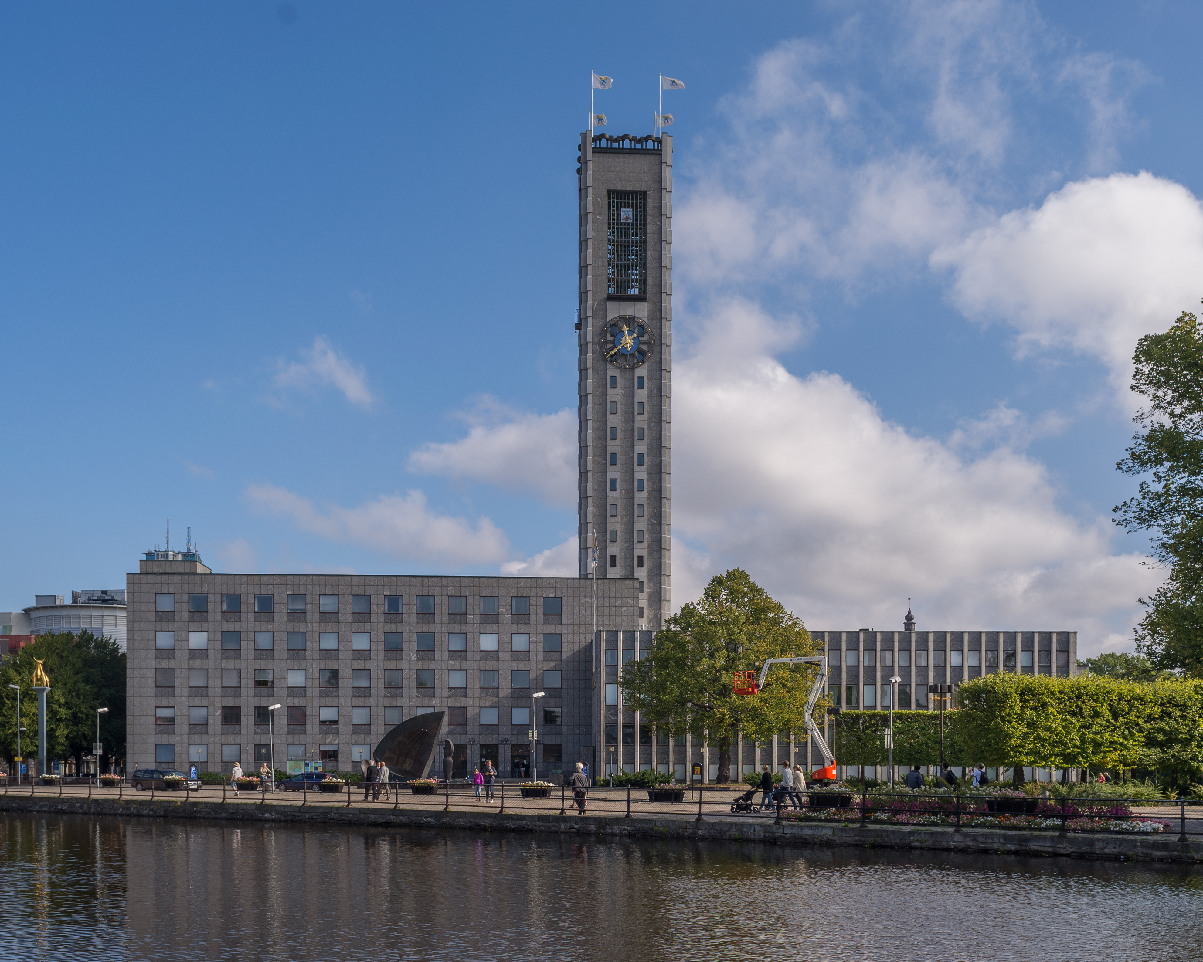 Västerås stadshus (city hall). Västerås, Sweden.